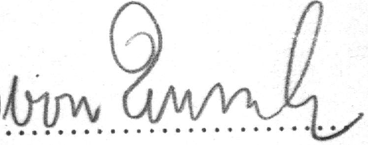 Signature of general Walther von Unruh, 30.12.1877-16.9.1956, in summer 1941 commander of Brest (occupied USSR)